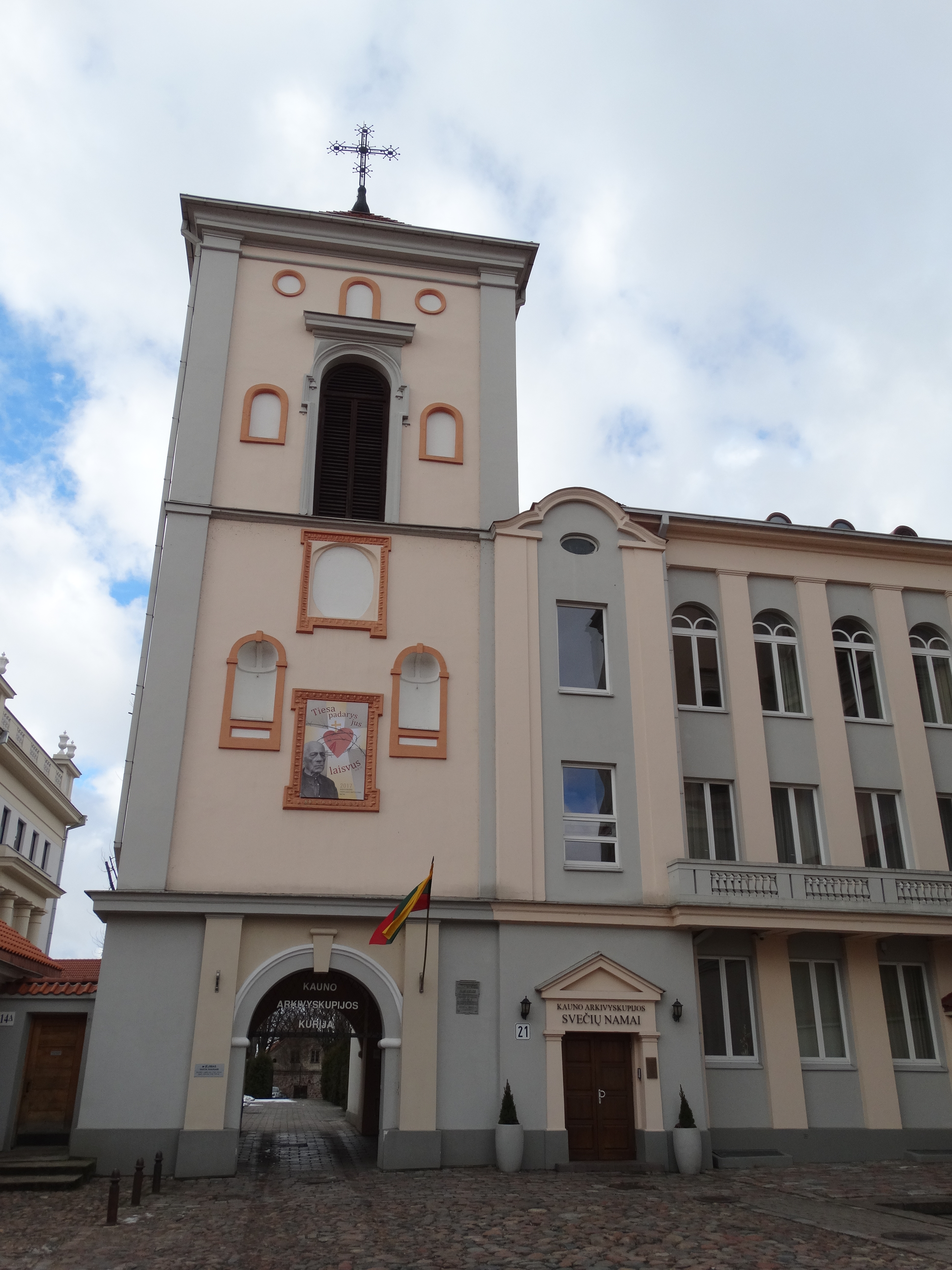 Gates to Curia of Roman Catholic Archdiocese of Kaunas, Lithuania